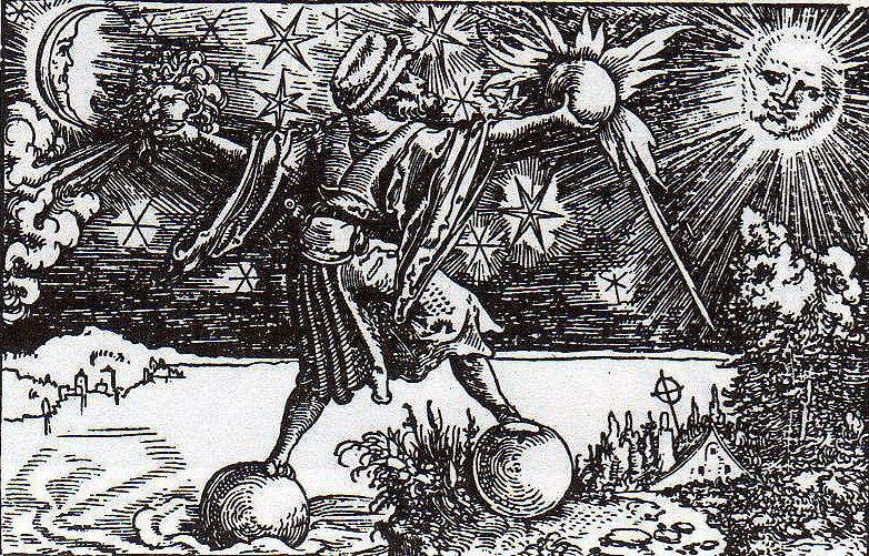 Woodcut of the so-called master of Petrarch. From Francesco Petrarca: „Von der Artzney bayder Glück / des guoten vnd widerwertigen. Vnnd weß sich ain yeder inn Gelück vnnd vnglück halten sol. Auß dem Lateinischen in das Teütsch gezogen. Mit künstlichen fyguren durchauß / gantz lustig vnd schön gezyeret.“ Augsburg: Heynrich Steyner 1532.